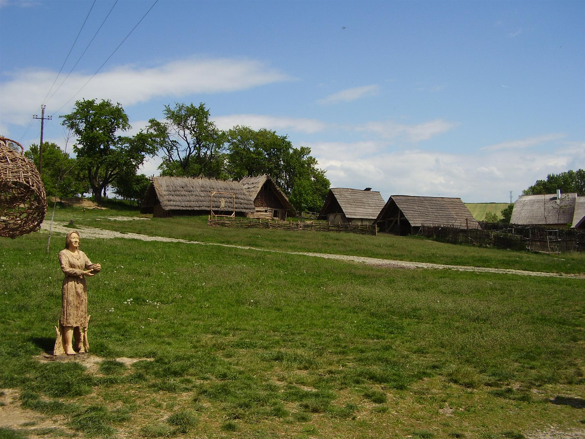 Buildings in open air museum Modrá